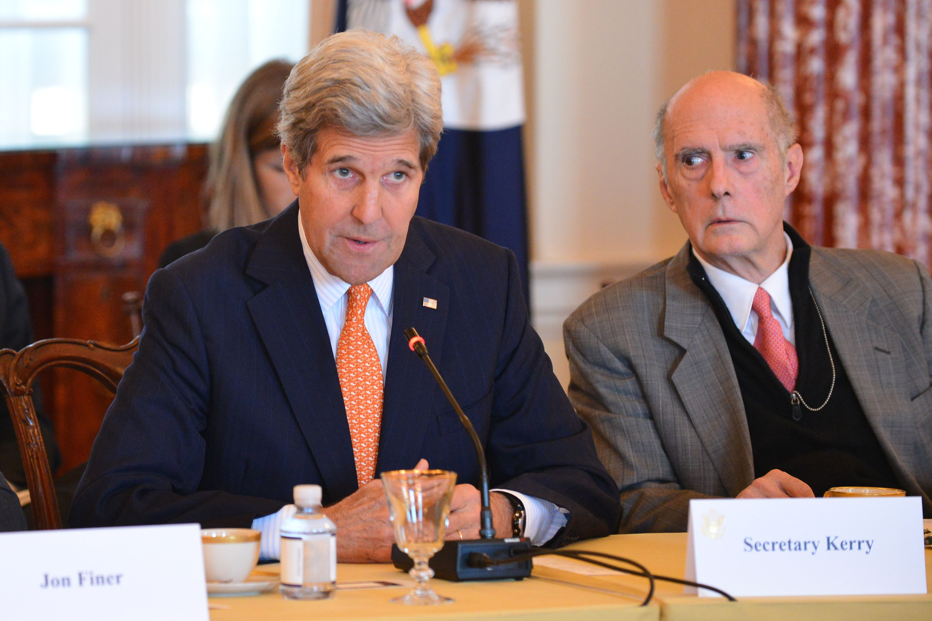 U.S. Secretary of State John Kerry delivers remarks at the Foreign Affairs Policy Board meeting at the U.S. Department of State in Washington, D.C., on March 28. 2016. Also pictured is Brookings Institution President Strobe Talbott. [State Department photo/ Public Domain]